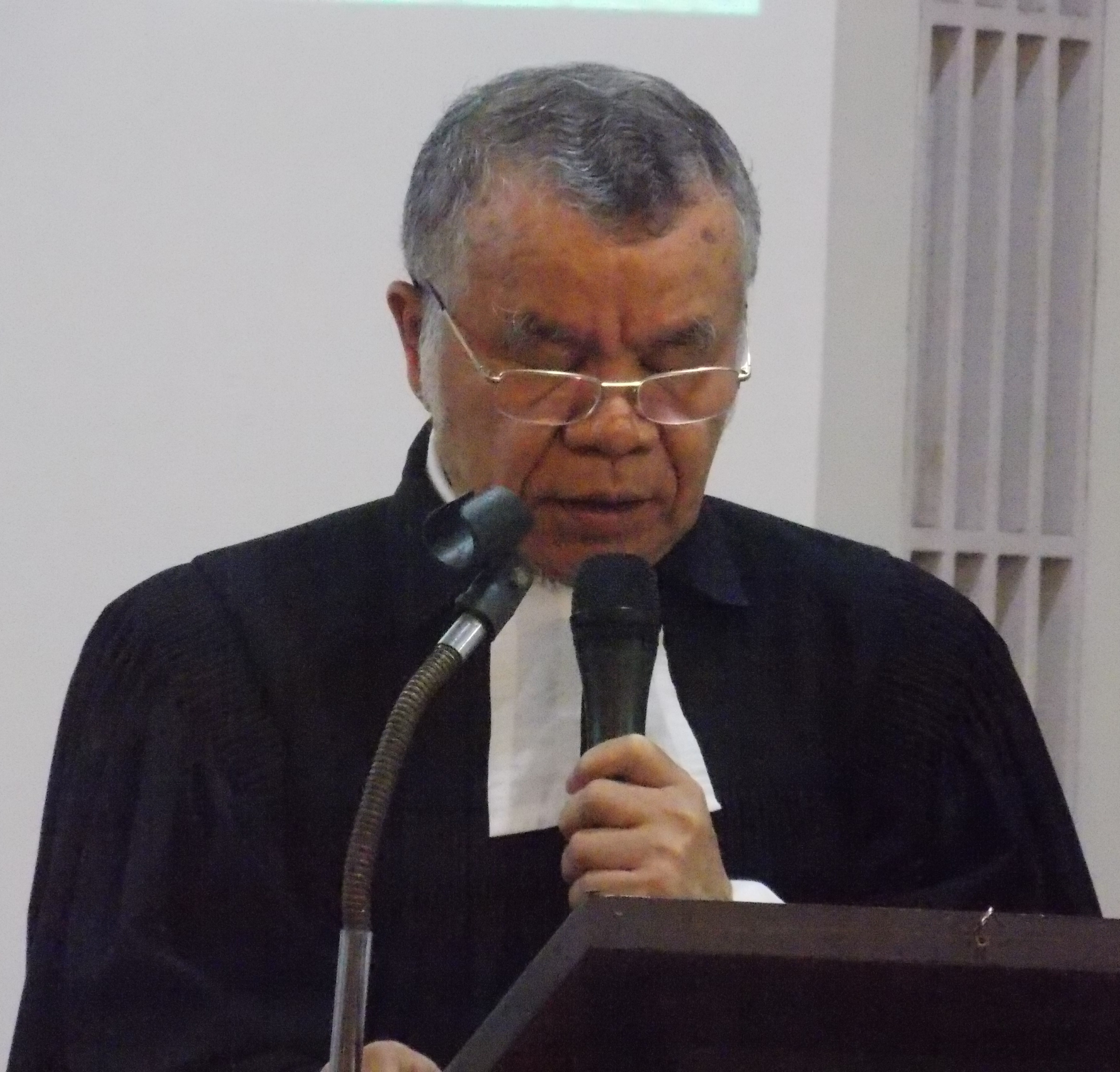 Photo of Ramlan Hutahaean, the General Secretary of HKBP from 2012 until 2016.